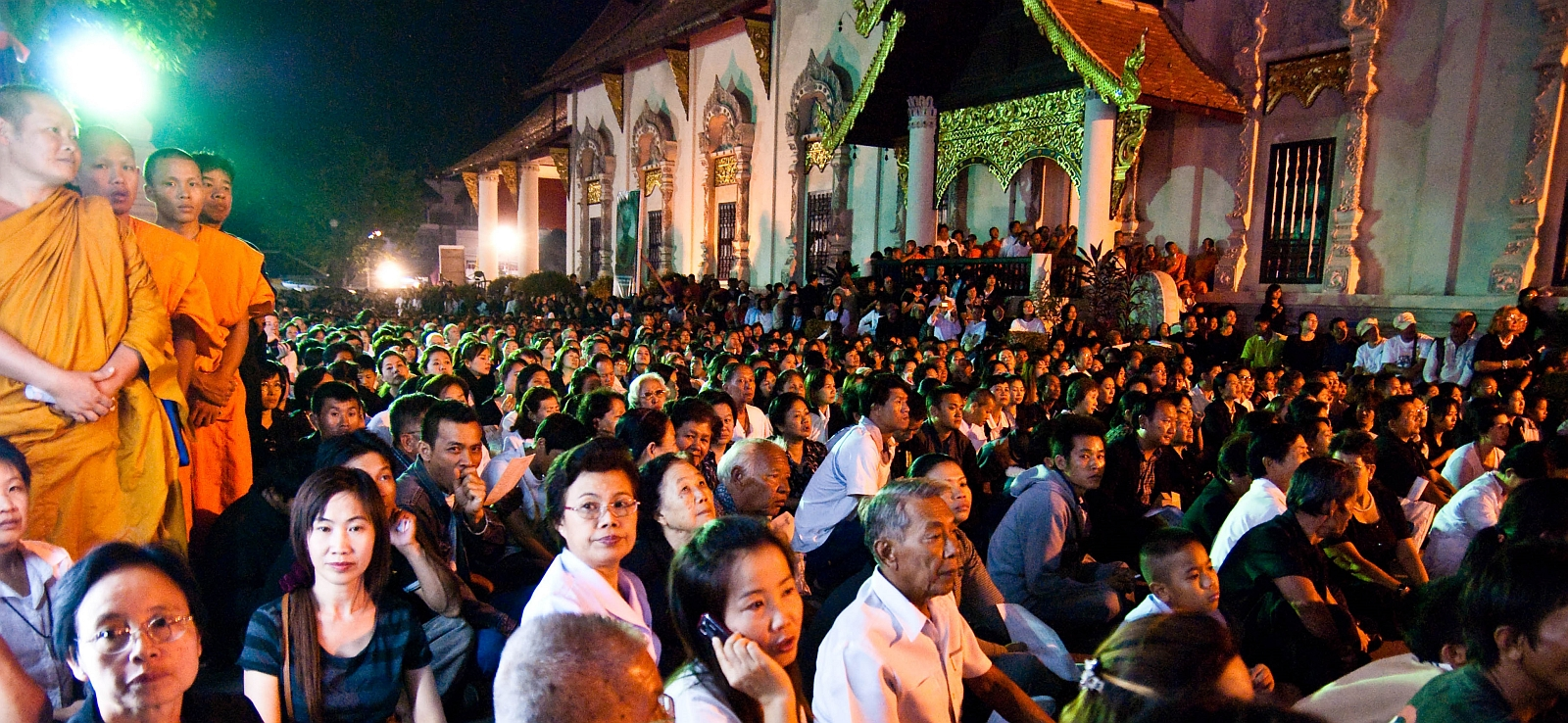 A photo of part of the crowd attending the cremation of Chan Kusalo (the Buddhist "archbishop" of Northern Thailand) at Wat Chedi Luang in Chiang Mai.Chan Kusalo, November 26, 1917 - July 11, 2008